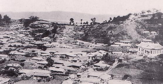 View of Anshu(Anju)